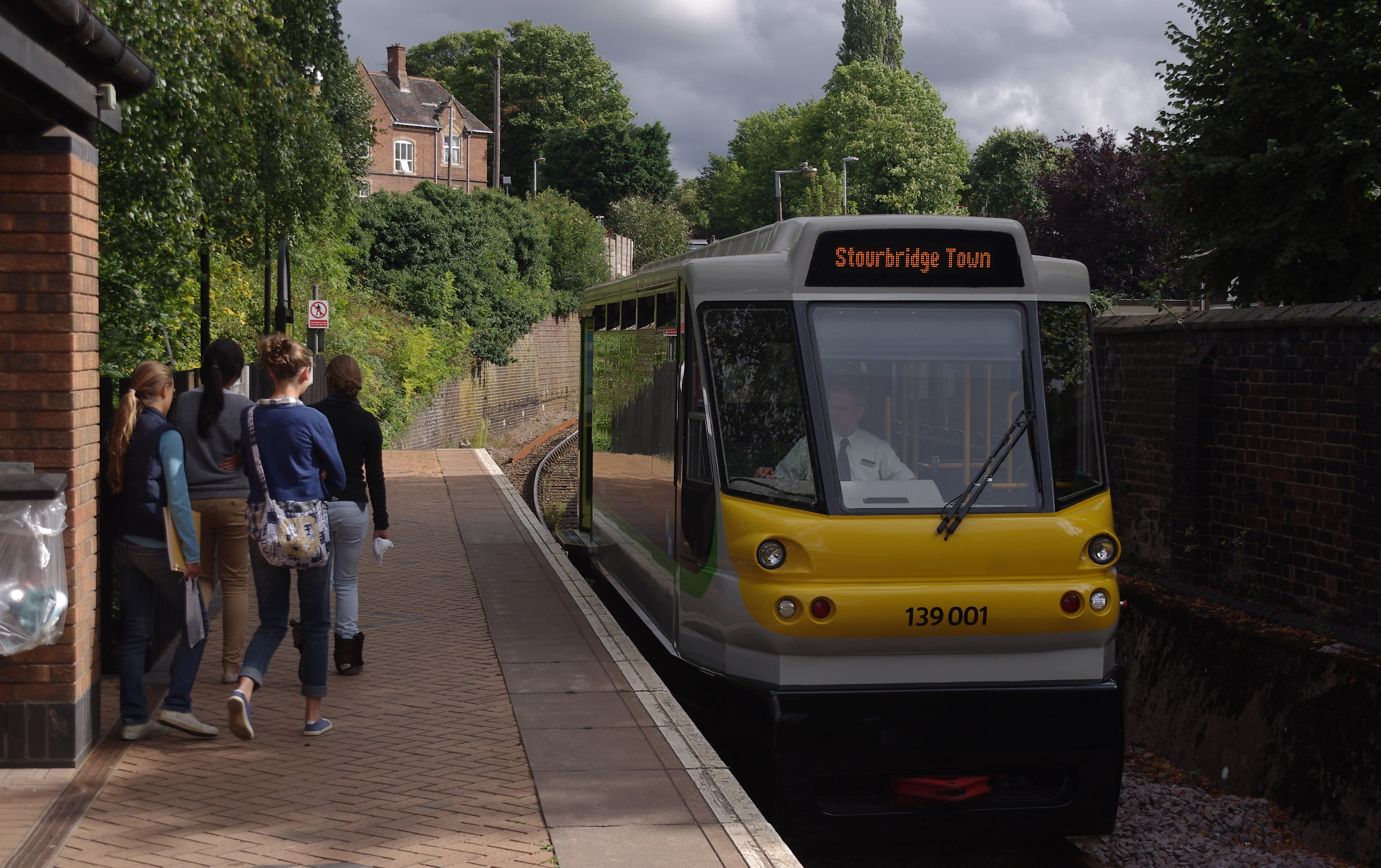 London Midland PPM 139001 stands at Stourbridge Town railway station.